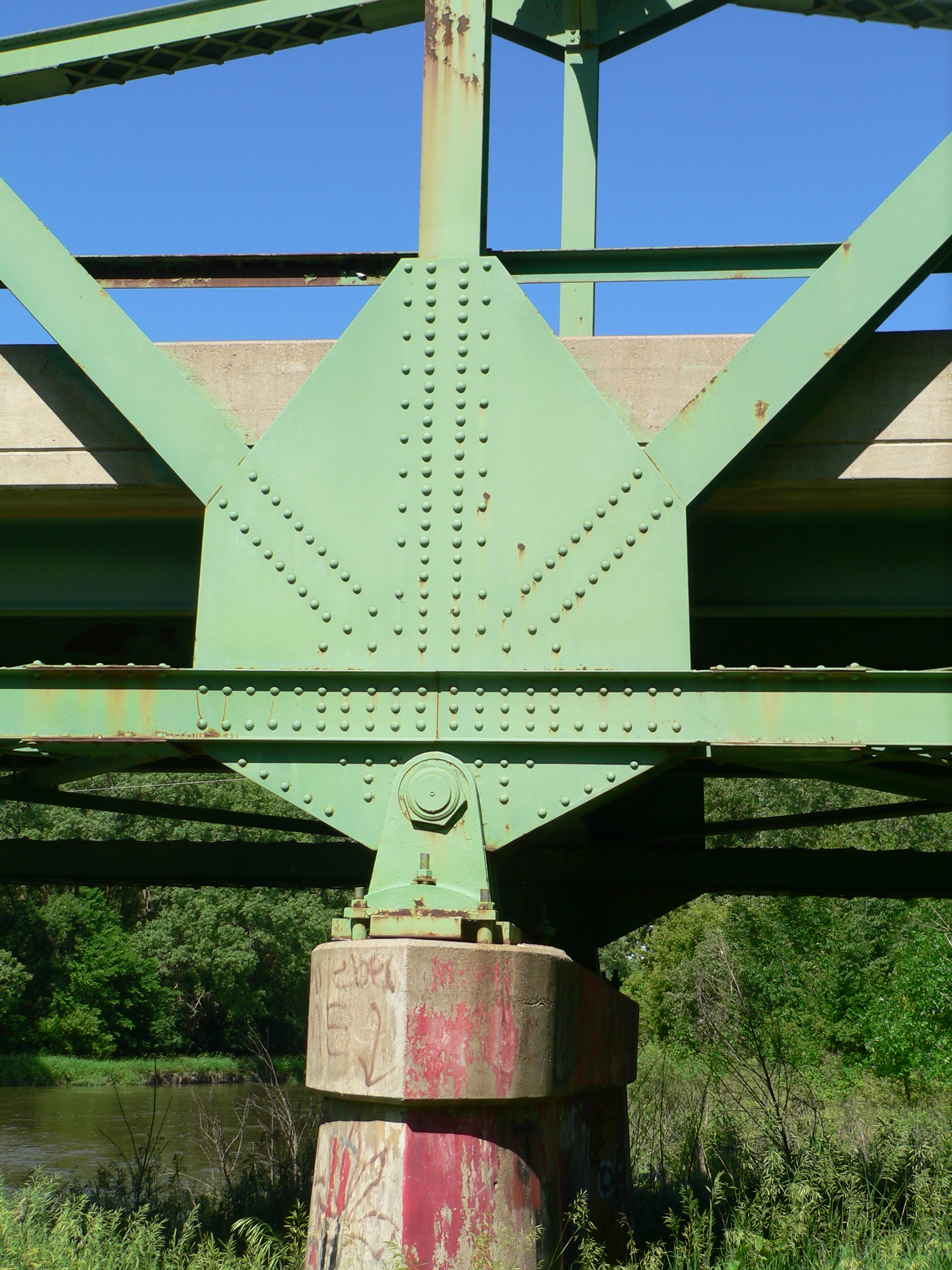 Detail of center pier and lower truss of Red Cloud Bridge, carrying U.S. Highway 281 across the Republican River south of Red Cloud, Nebraska; seen from the east (downstream). The continuous truss bridge was built in 1935; it is listed in the National Register of Historic Places.